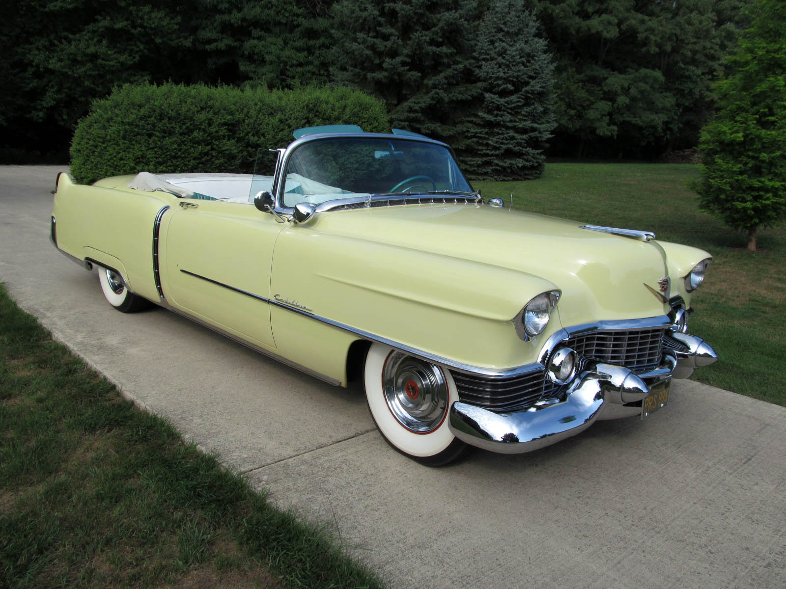 This is a picture of a 1954 Cadillac series 62 convertible.